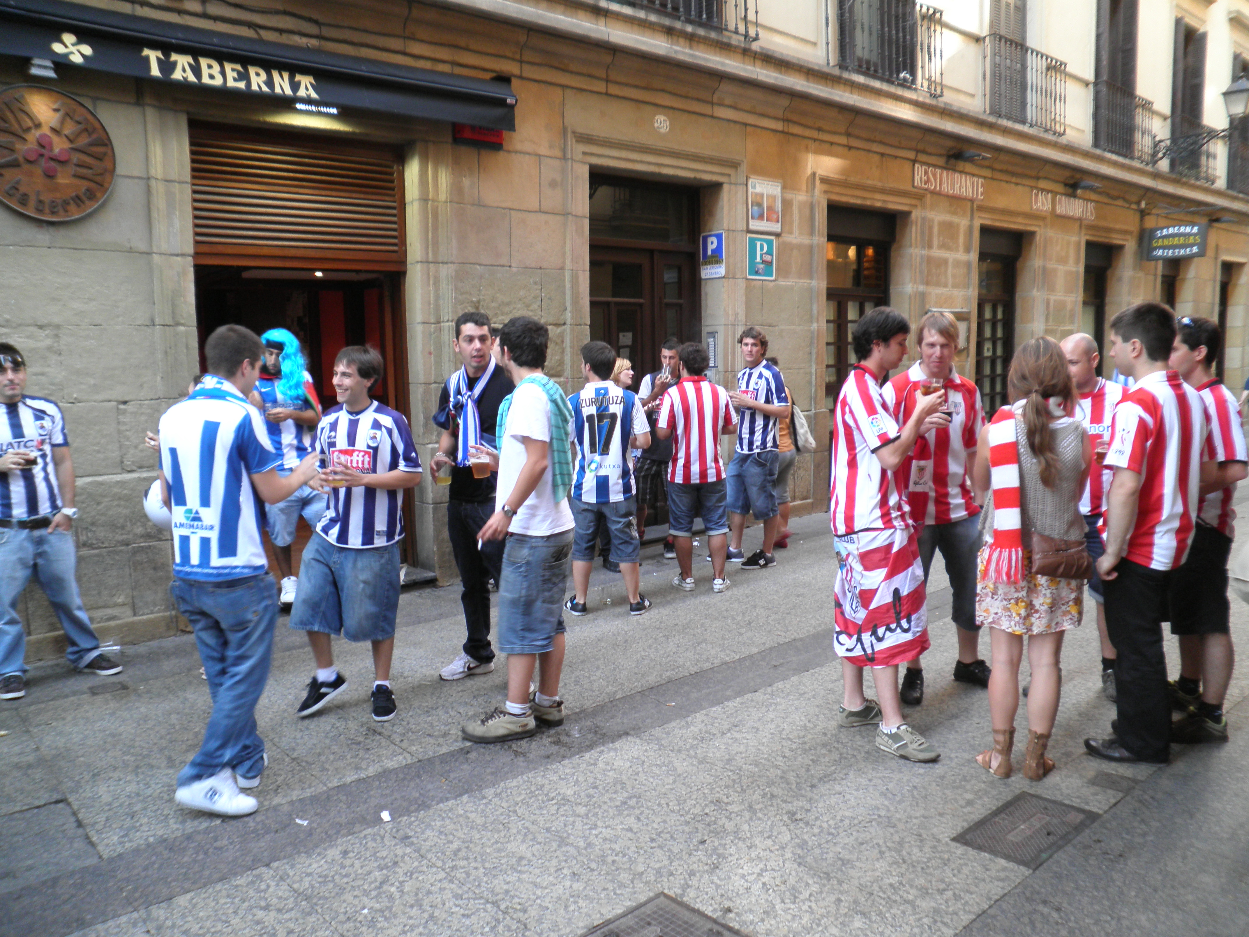 Hooligans in Donostia. Real Sociedad-Athletic derby.